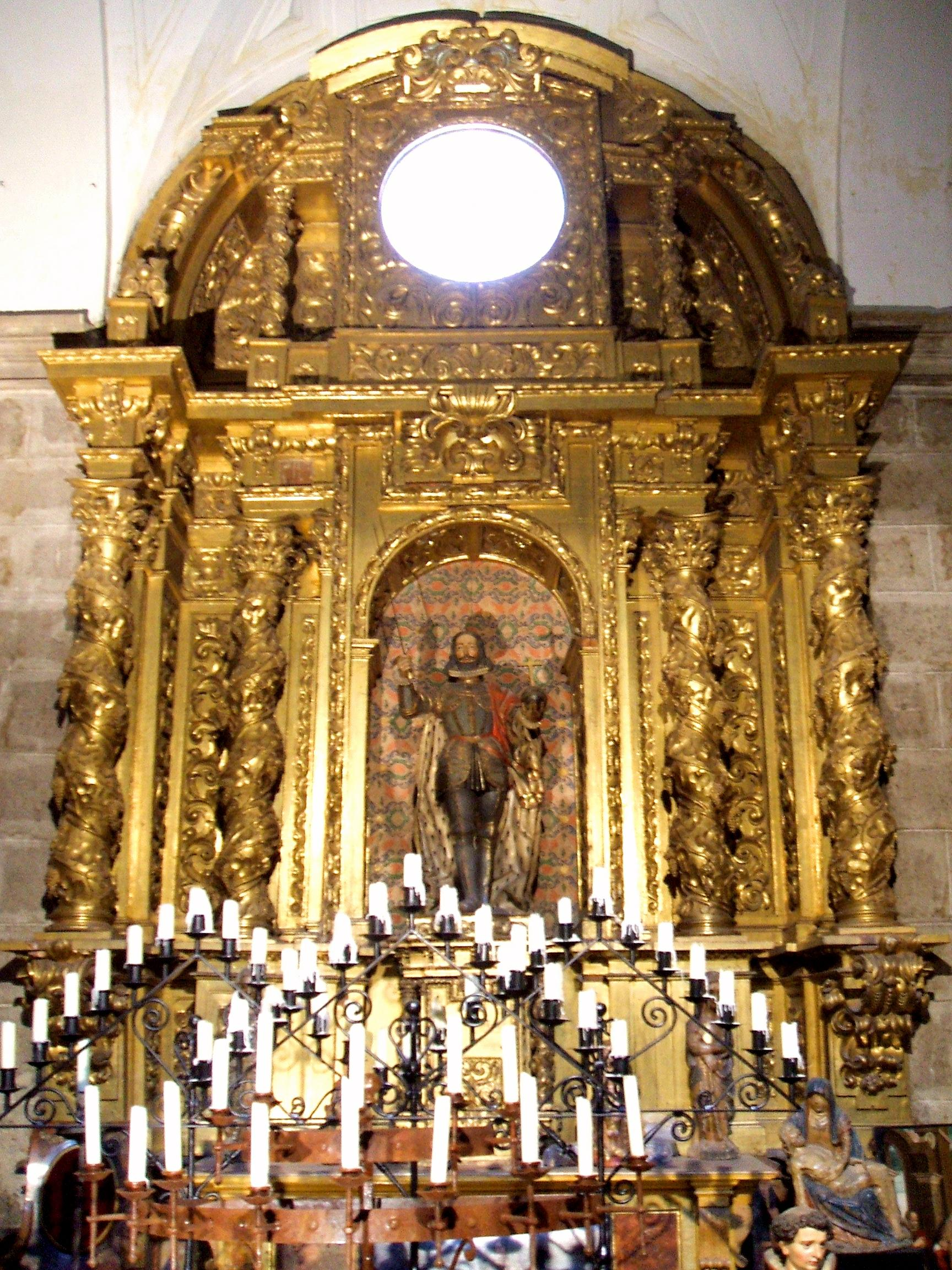 Retablo barroco de la Capilla de San Fernando de la Catedral de Valladolid (España)